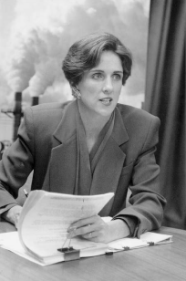 Carol Browner while Administrator of the Environmental Protection Agency (1993-2001). Second source for photo is Collin, Robert W. (2005), The Environmental Protection Agency: Cleaning Up America's Act, Westport, Connecticut: Greenwood Publishing Group, ISBN 0-313-33341-6, p. 274, which gives the U.S. Environmental Protection Agency Archives credit.